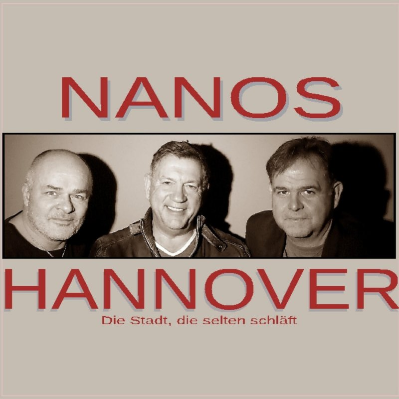 NANOS Hanover - the City, that doesn't sleep that often